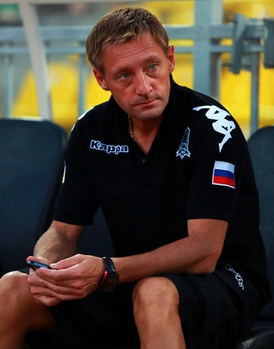 Andrei Tikhonov 2014